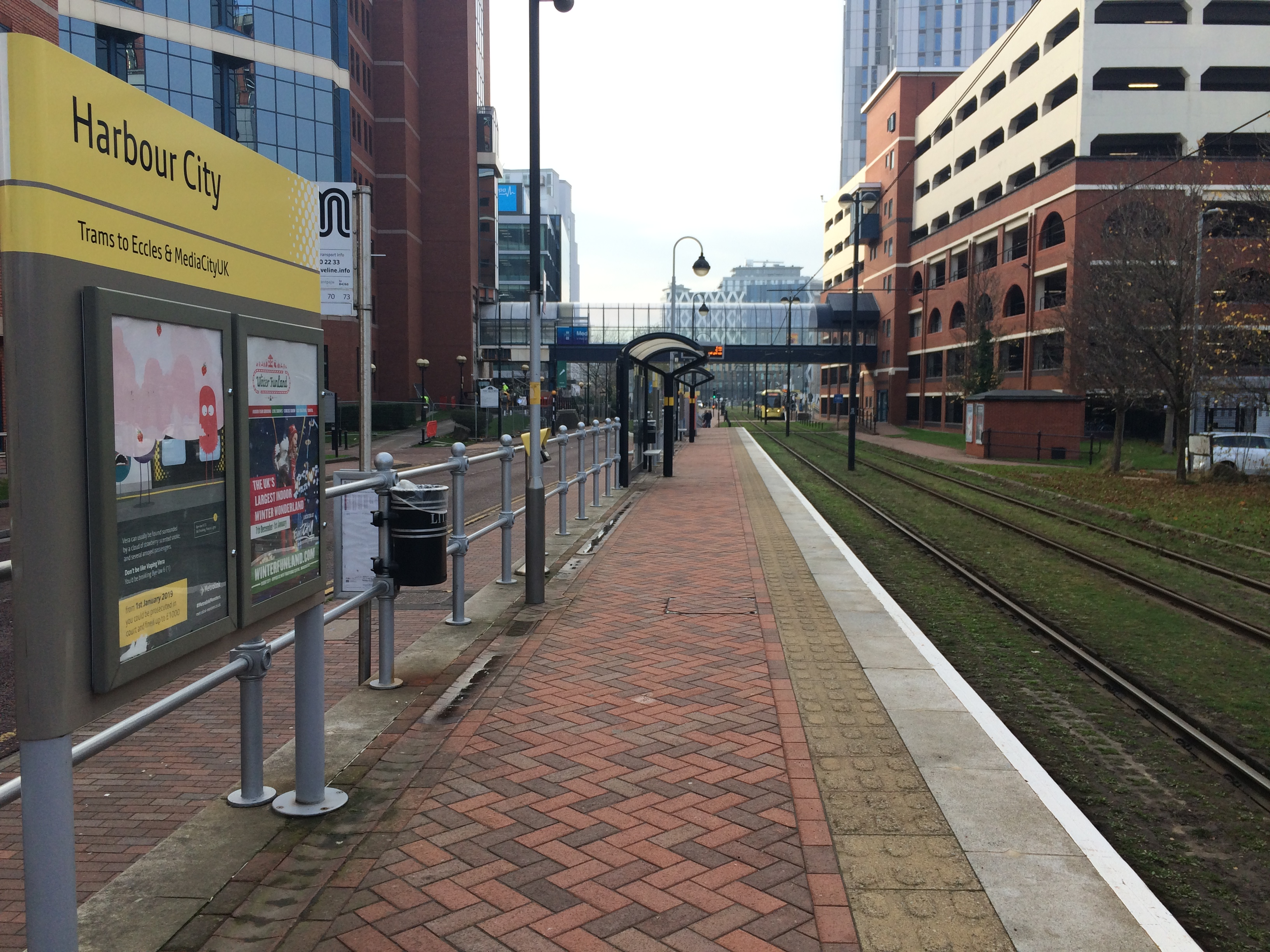 mEDIAcITY